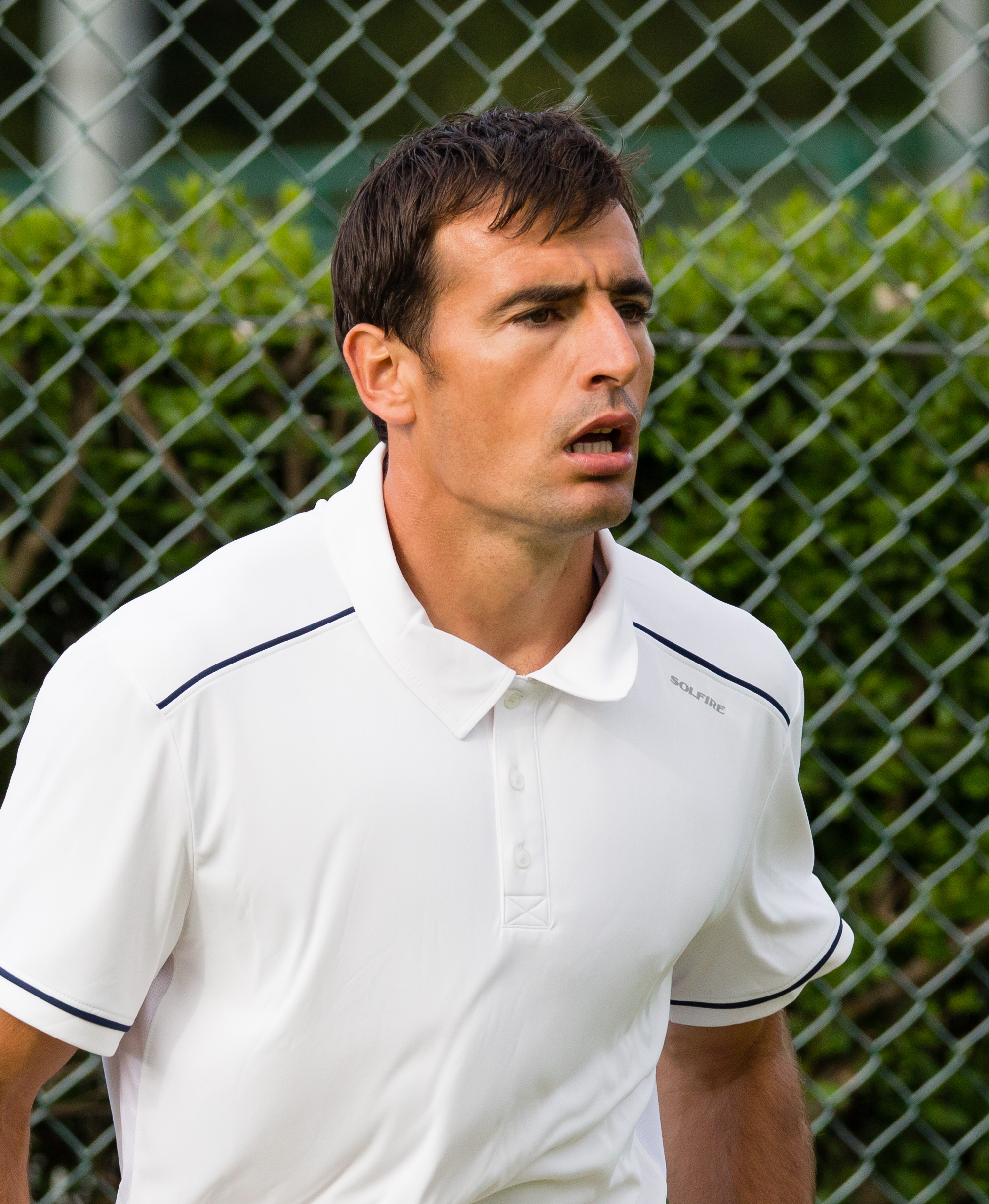 Ivan Dodig competing in the first round of the 2015 Wimbledon Qualifying Tournament at the Bank of England Sports Grounds in Roehampton, England. The winners of three rounds of competition qualify for the main draw of Wimbledon the following week.